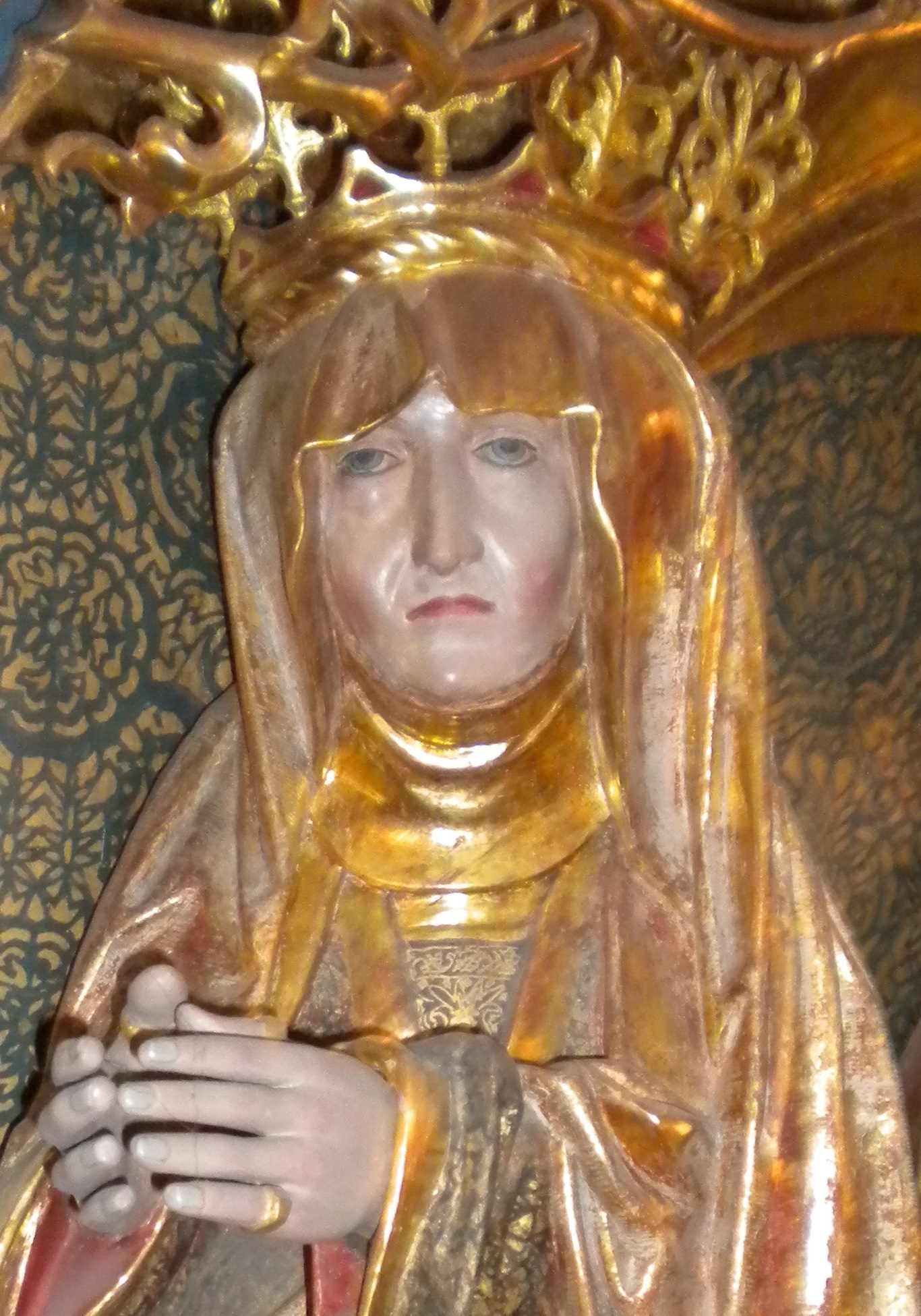 Sculpture of Queen Christina of Denmark, Norway and Sweden by Claus Berg about 1530Place: Church of St. Canute’s, Odense, Denmark